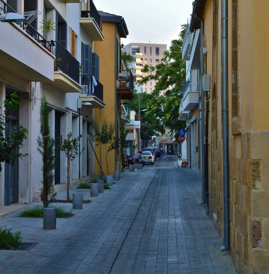 Nicosia Eleftheria Ariadnis Street Nicosia Republic of Cyprus